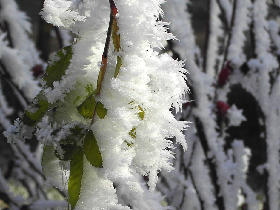 White frost on the twig of a rose in a cold and sunny morning with clear sky